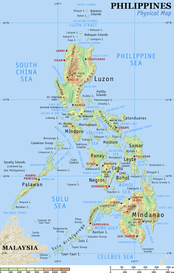 Physical map of the Philippines, showing all the major and some minor islands, bodies of water, mountains, and some major cities.